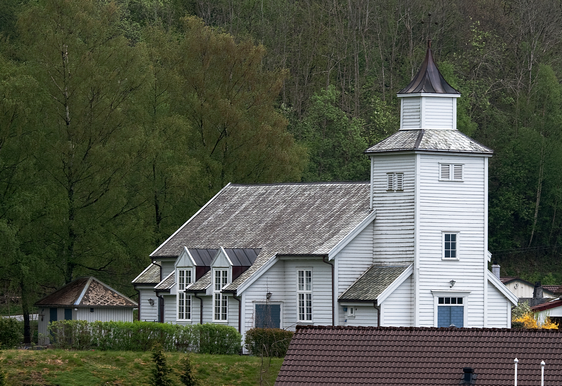 Erfjord kyrkje